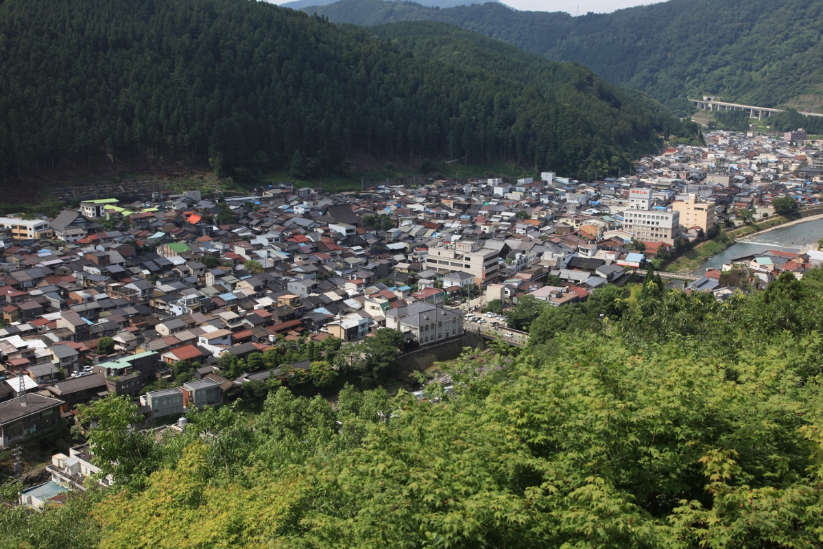 Overview of Gujo(郡上) City, Gifu(岐阜) Prefecture, Japan